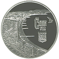 The reverse of commemorative silver coin of Ukraine "1800 years of Sudak" (2012)